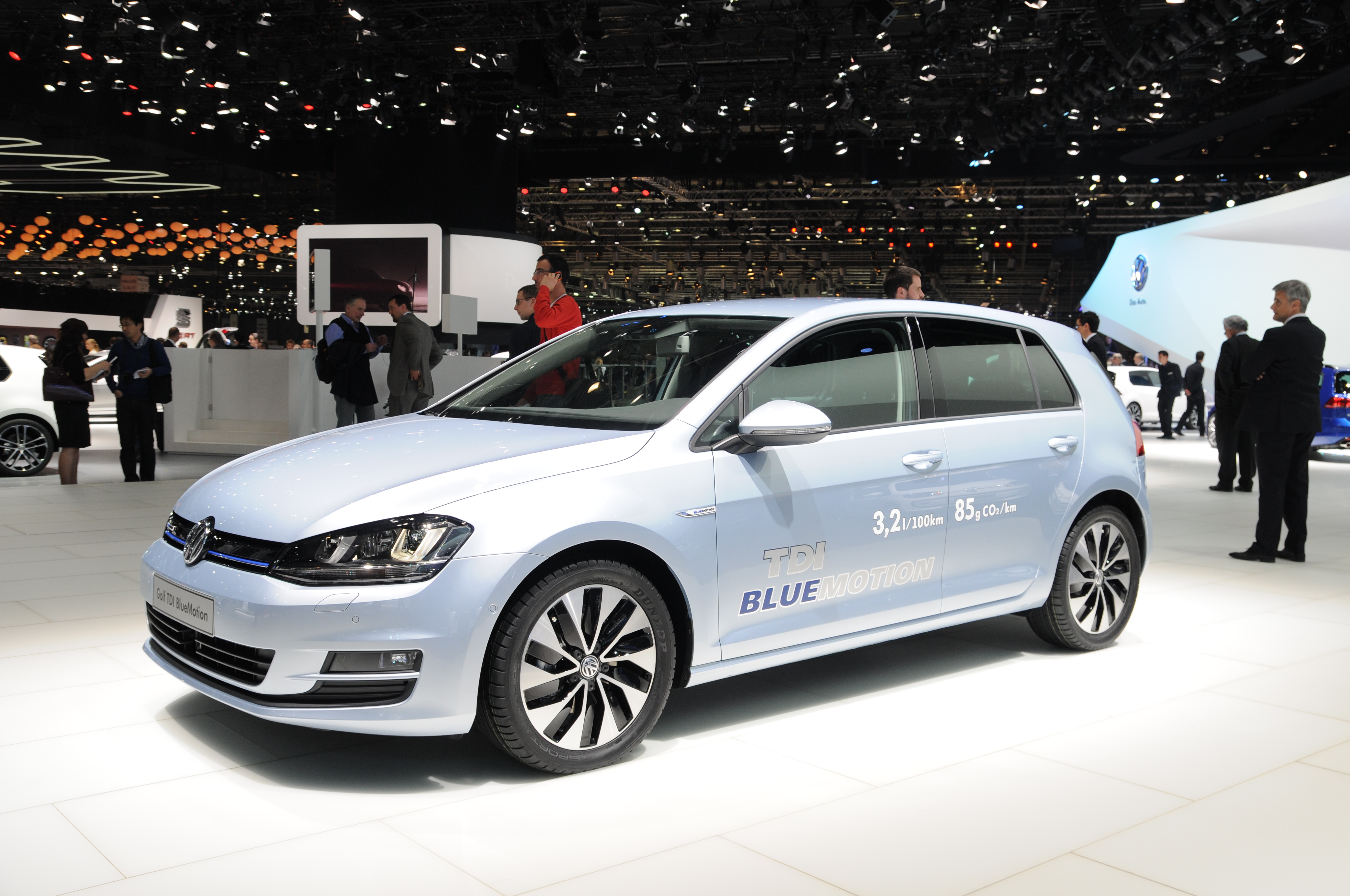 Geneva Motor Show 2013 (photos taken on the first press day)